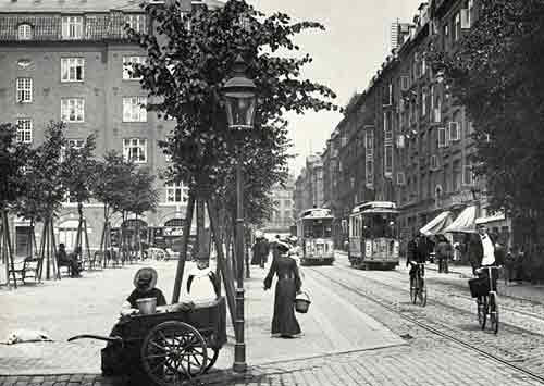 Blågårdsgade in Nørrebro, Copenhagen, Denmark